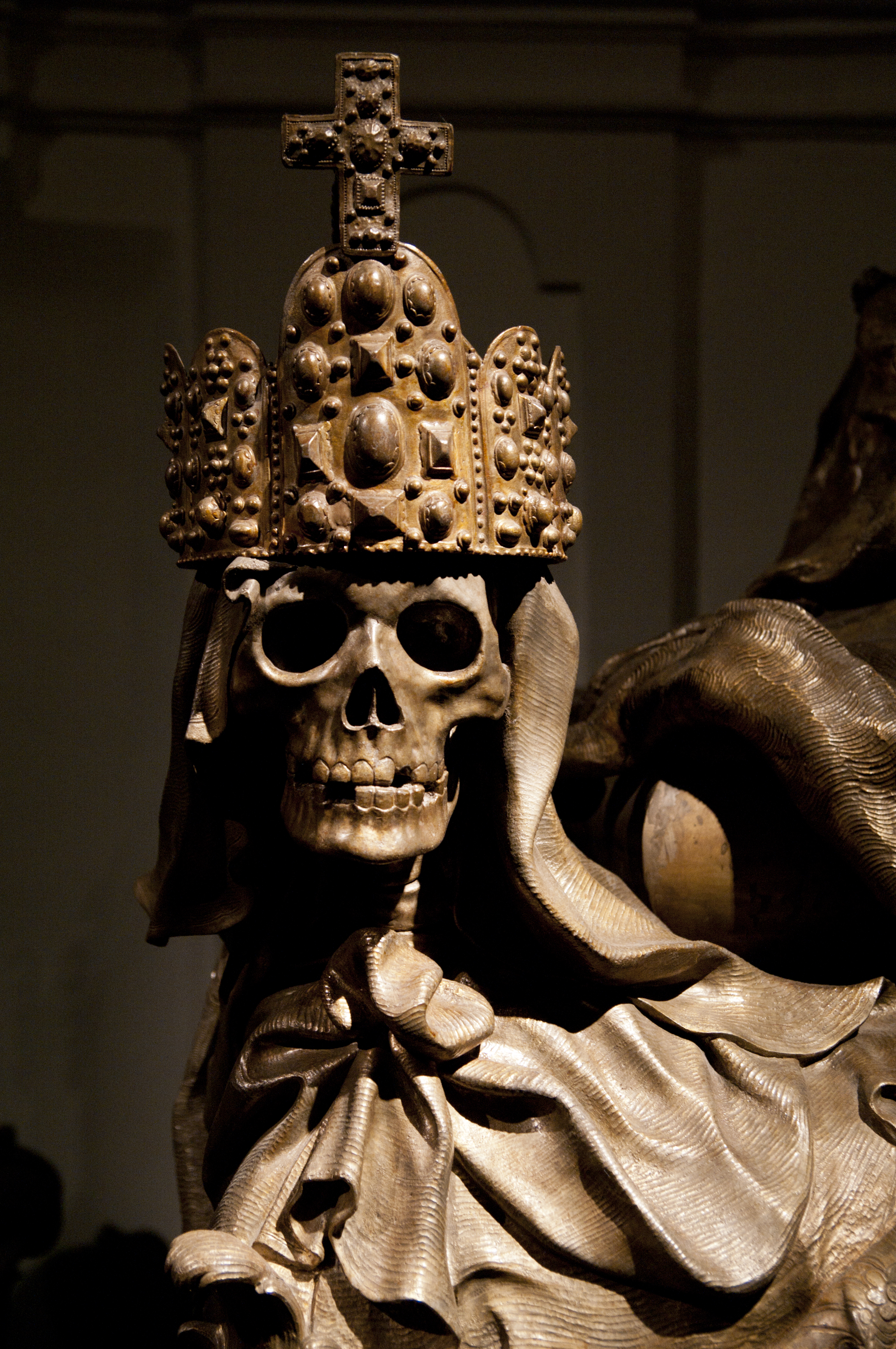 An ornament of the sarcophagus of Charles VI, Holy Roman Emperor: a death's head with the crown of the Holy Roman Empire.